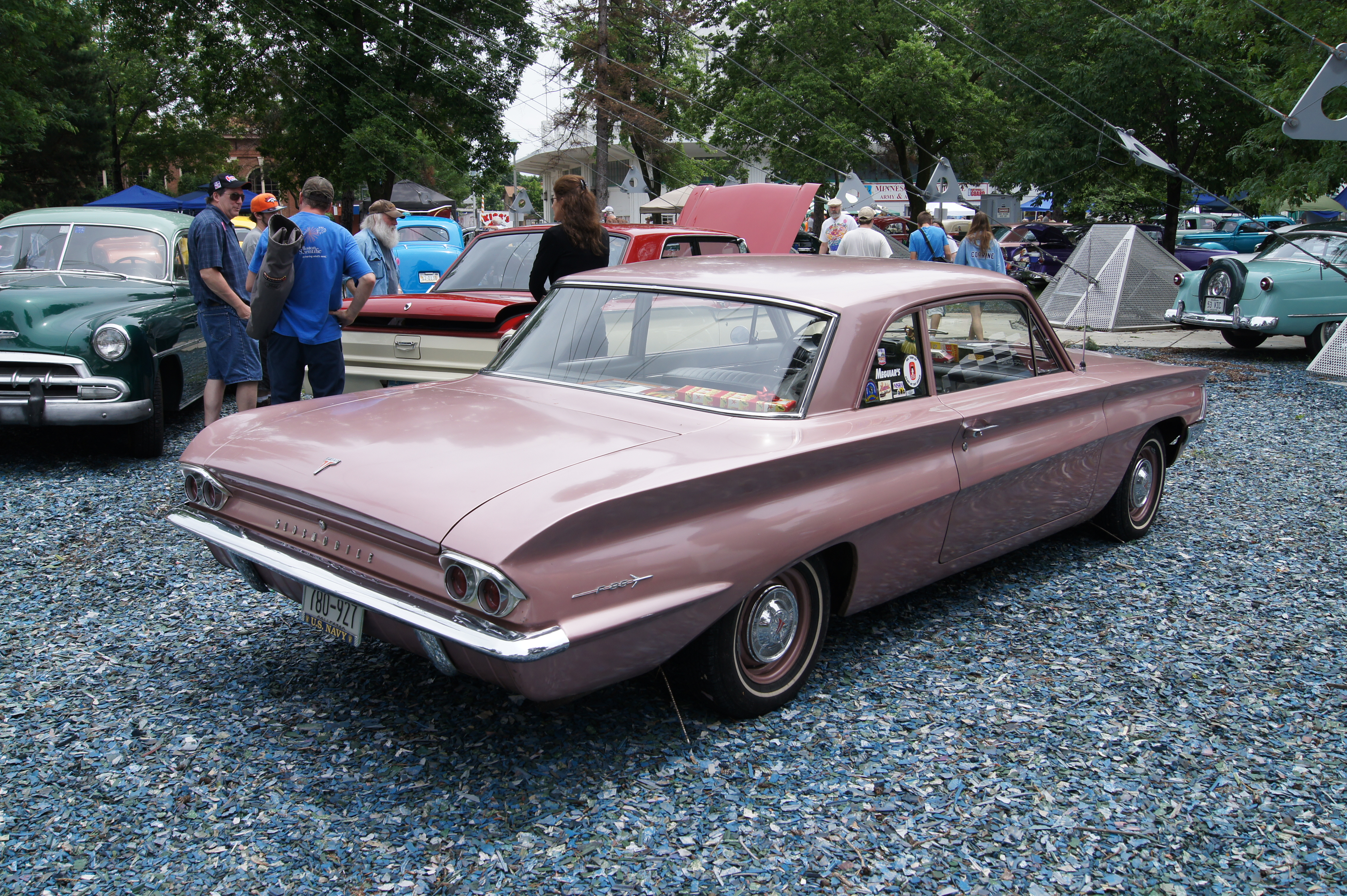 MSRA “BACK TO THE 50′s” 40th ANNIVERSARY June 21-23, 2013 State Fairgrounds St. Paul Minnesota More Car Pictures